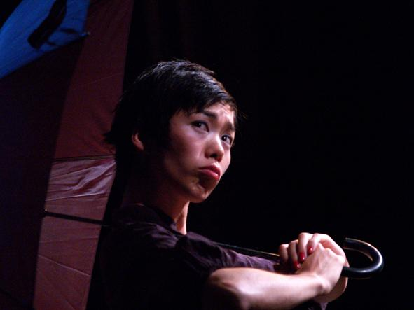 Saori Tsukada performing a scene in the work "John Moran...and his neighbor, Saori" in 2009.